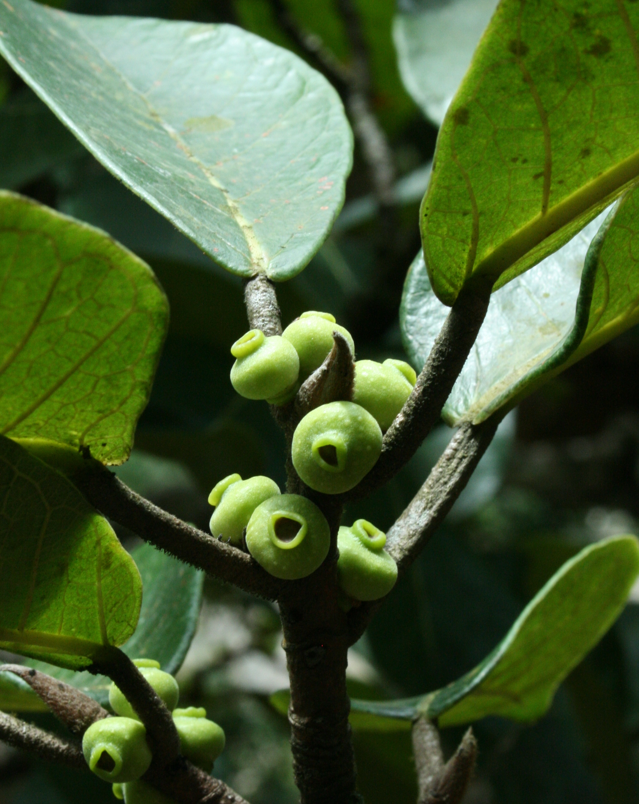 Fruits of F. p. malacocarpa, upper Rio Tabaro, Venezuela